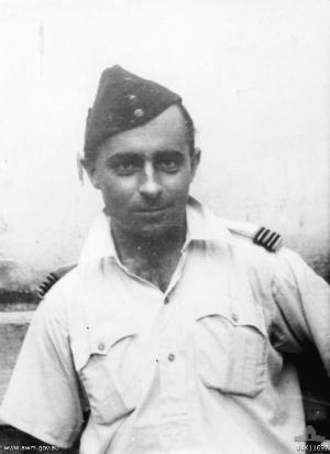 Portrait of Flight Lieutenant (later Squadron Leader) Charles Arbuthnot Crombie DSO, DFC, an Australian fighter pilot and flying ace of the Second World War.